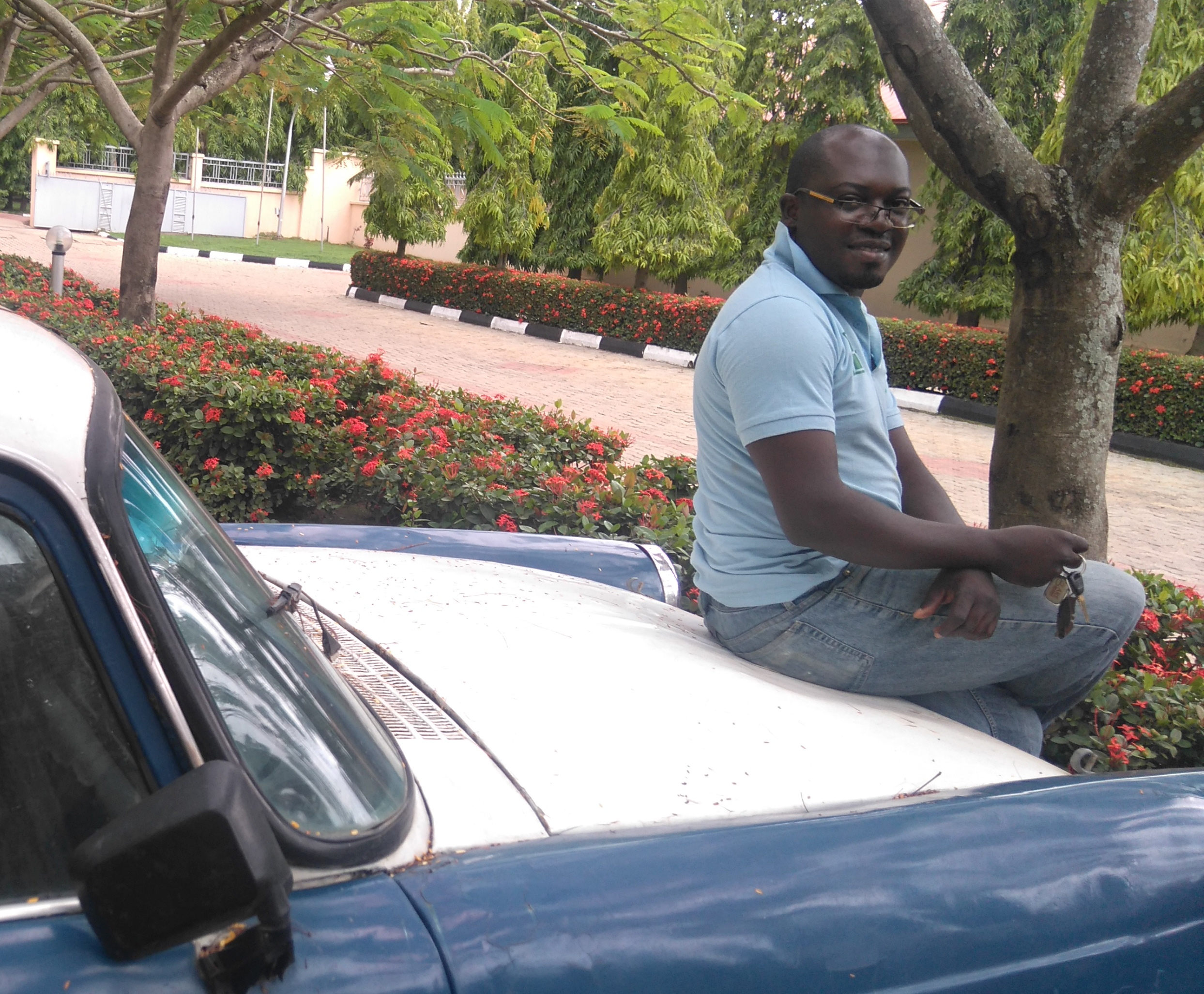 Nigerian author, Richard Ali